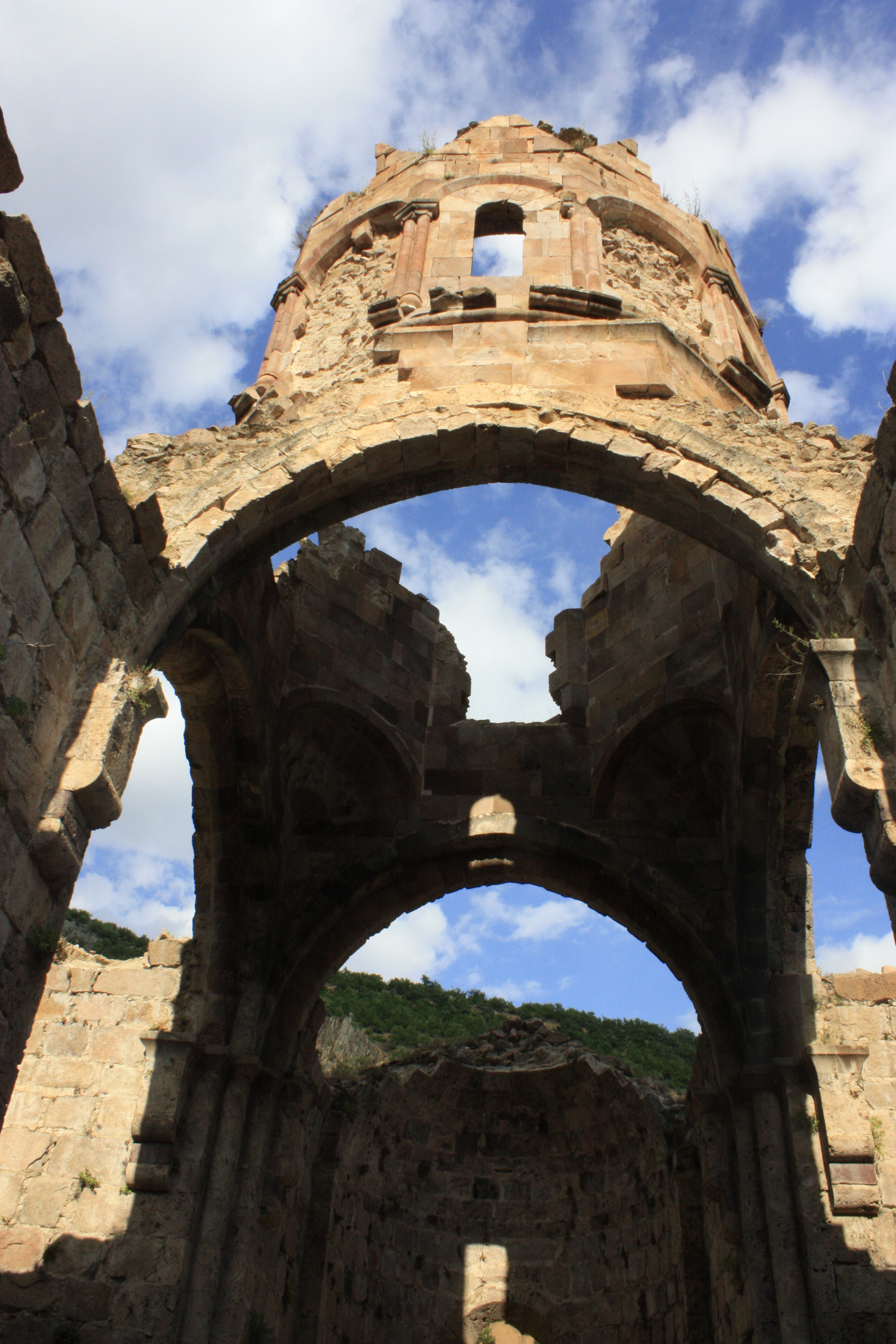 Georgian cathedral Khandzta in historical Georgian region Tao-Klarjeti